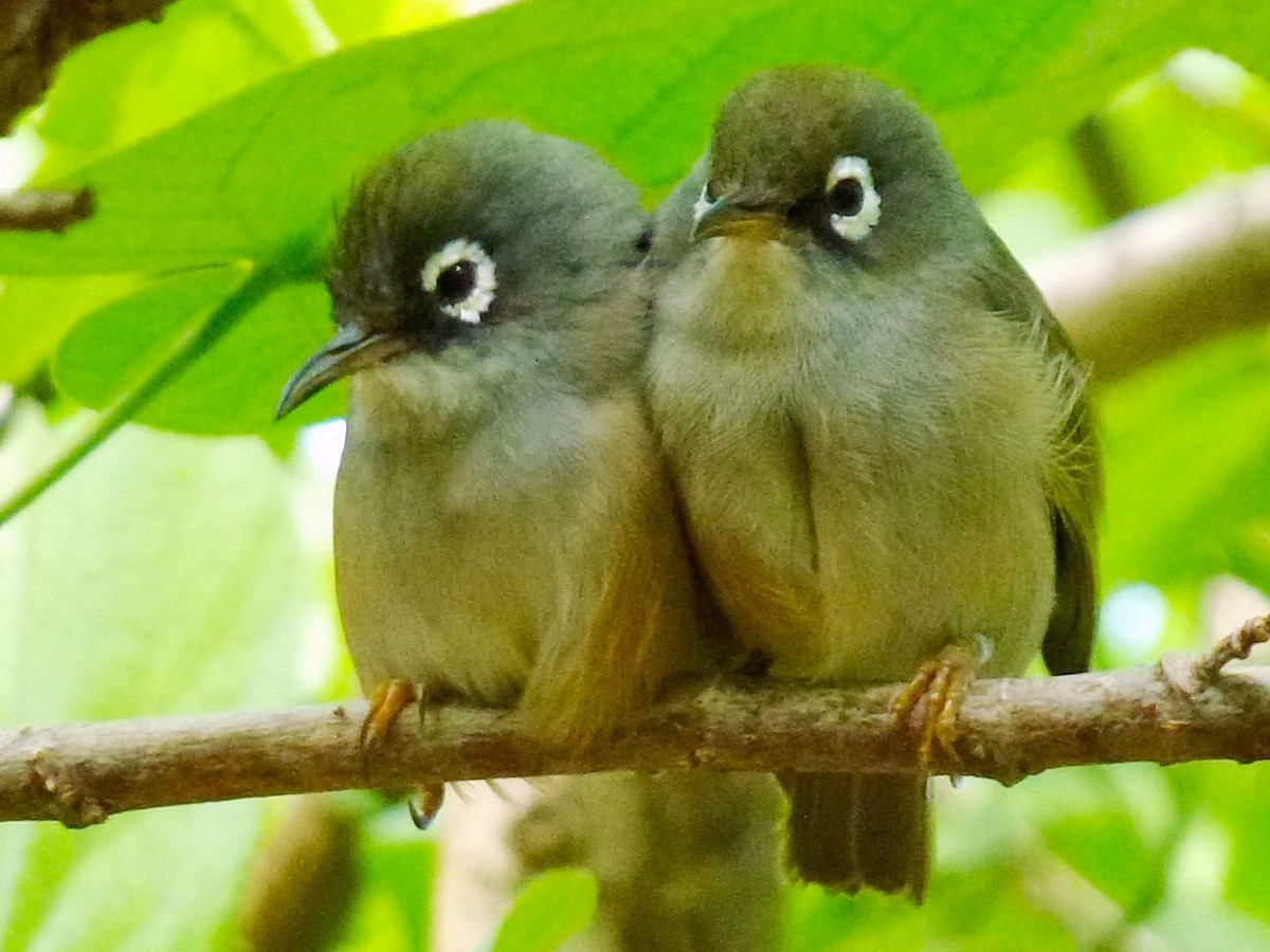 Mauritian White-Eye breeding pair, mutual preening